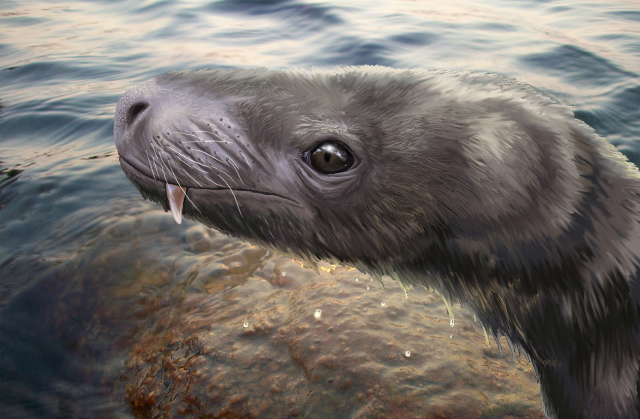 Life restoration of Perplexisaurus foveatus. Based on figure 1 of "Permian and Triassic therocephals (Eutherapsida) of Eastern Europe" by M. F. Ivakhnenko (Paleontological Journal 45 (9): 981-1144).